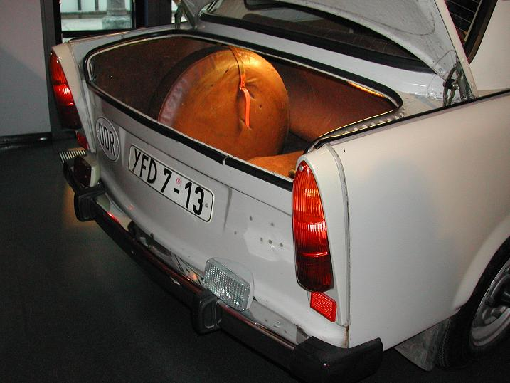 Trabant in Berlin